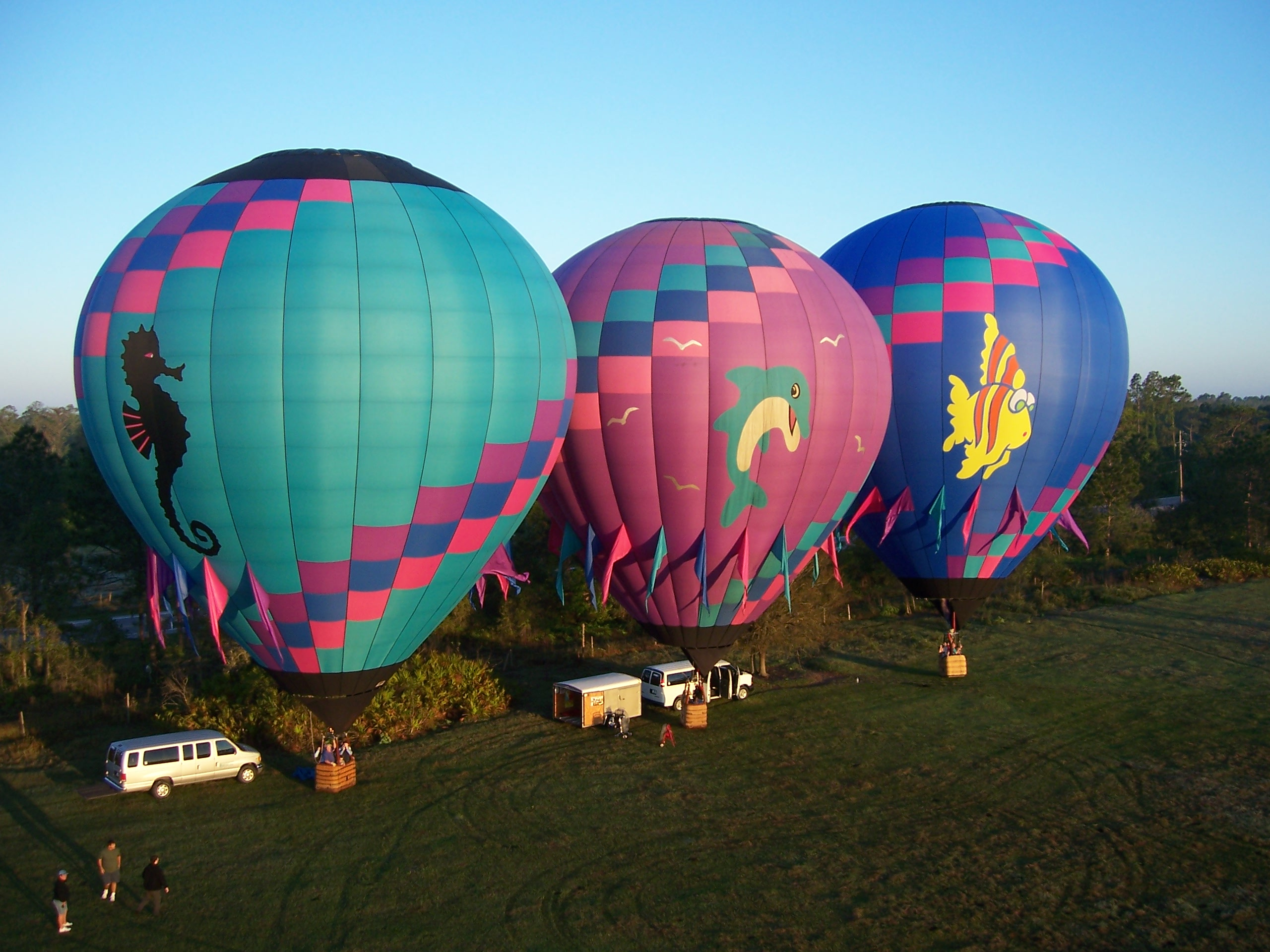 Three balloons from Blue Water Balloons in Orlando, FL prepare to take off.